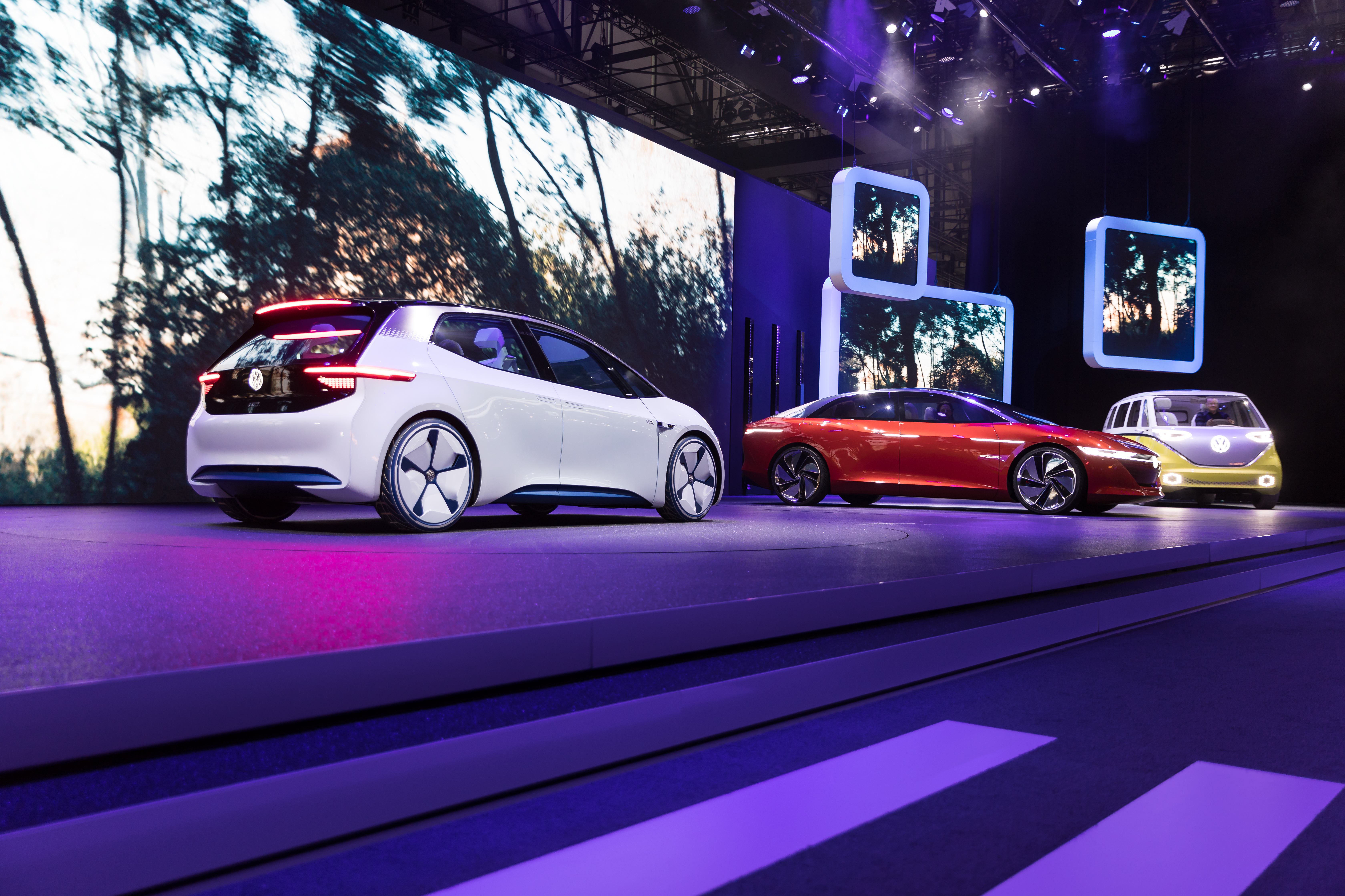 Geneva International Motor Show 2018